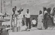 A cropped version of File:Umi no seimeisen Jaluit.jpg that focuses on the people whom the documentary Amelia Earhart: The Lost Evidence claimed might have been Amelia Earhart and Fred Noonan, a claim later shown to be impossible due to the publication date of 1935.